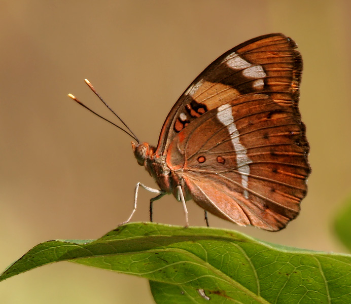 Baronet Euthalia nais in Kawal Wildlife Sanctuary, Andhra Pradesh, India.